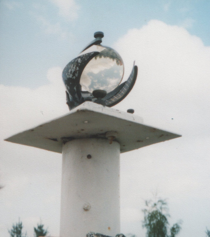 Мерни инструмент инсолације - хелиограф